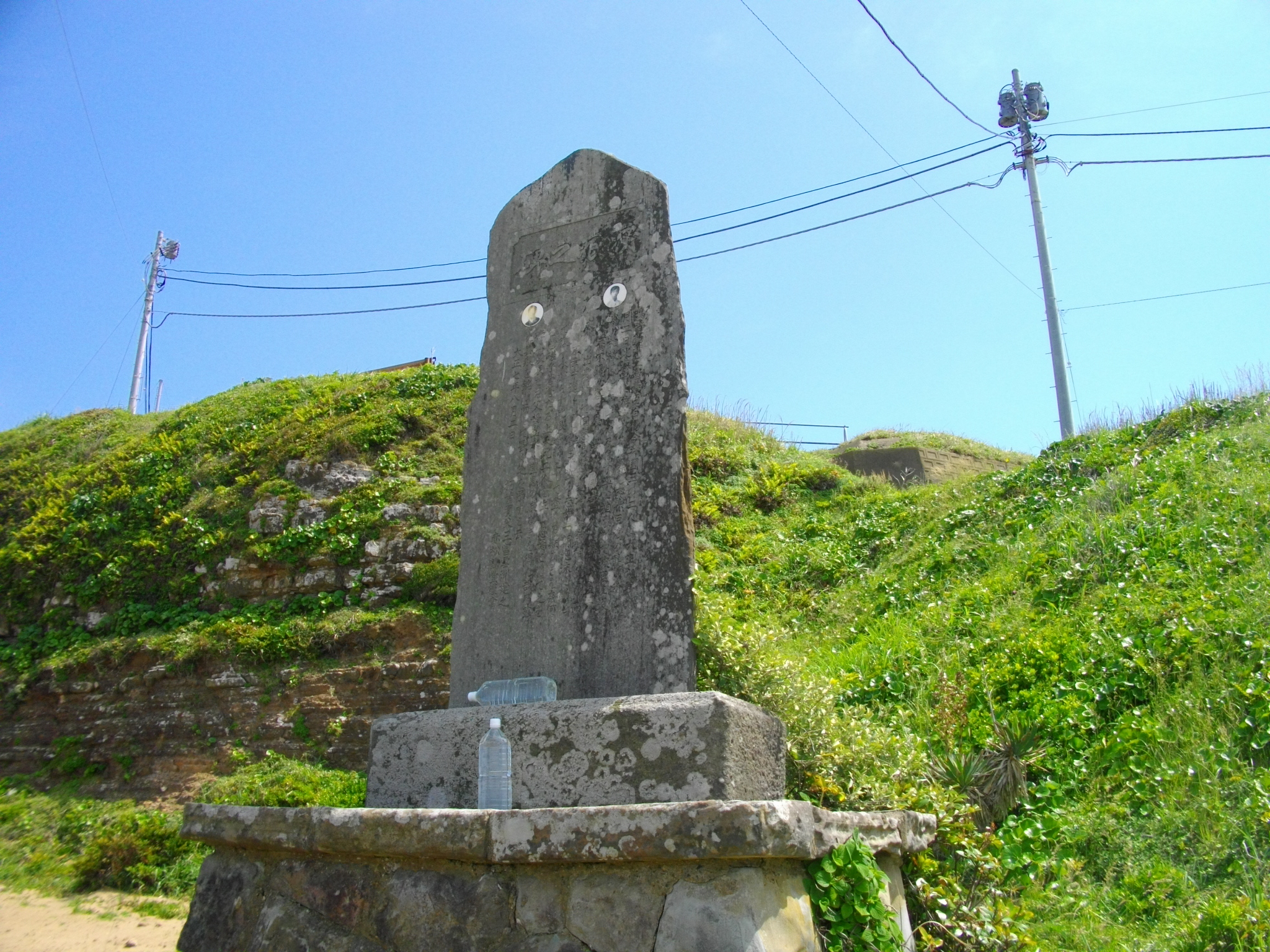 Ruikon no Hi (Choshi)